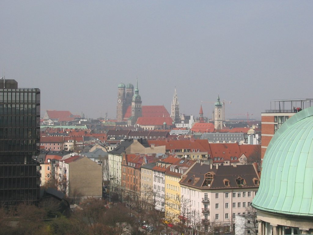 View of the central part of the city of Munich including the Frauenkirche and Town Hall from the roof of the German Museum. On the left is part of the building of the European Patent Office.